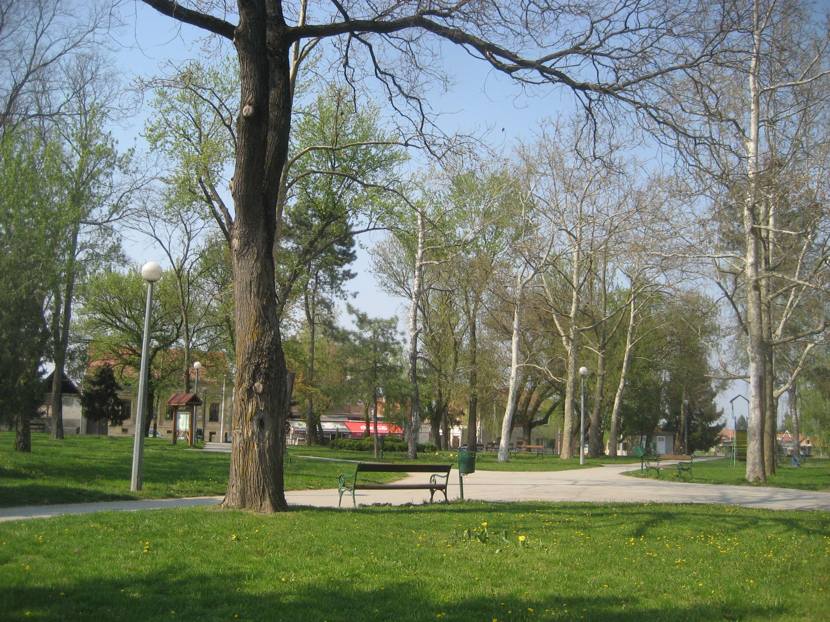 St Katarina Church, Village Nijemci, Croatia